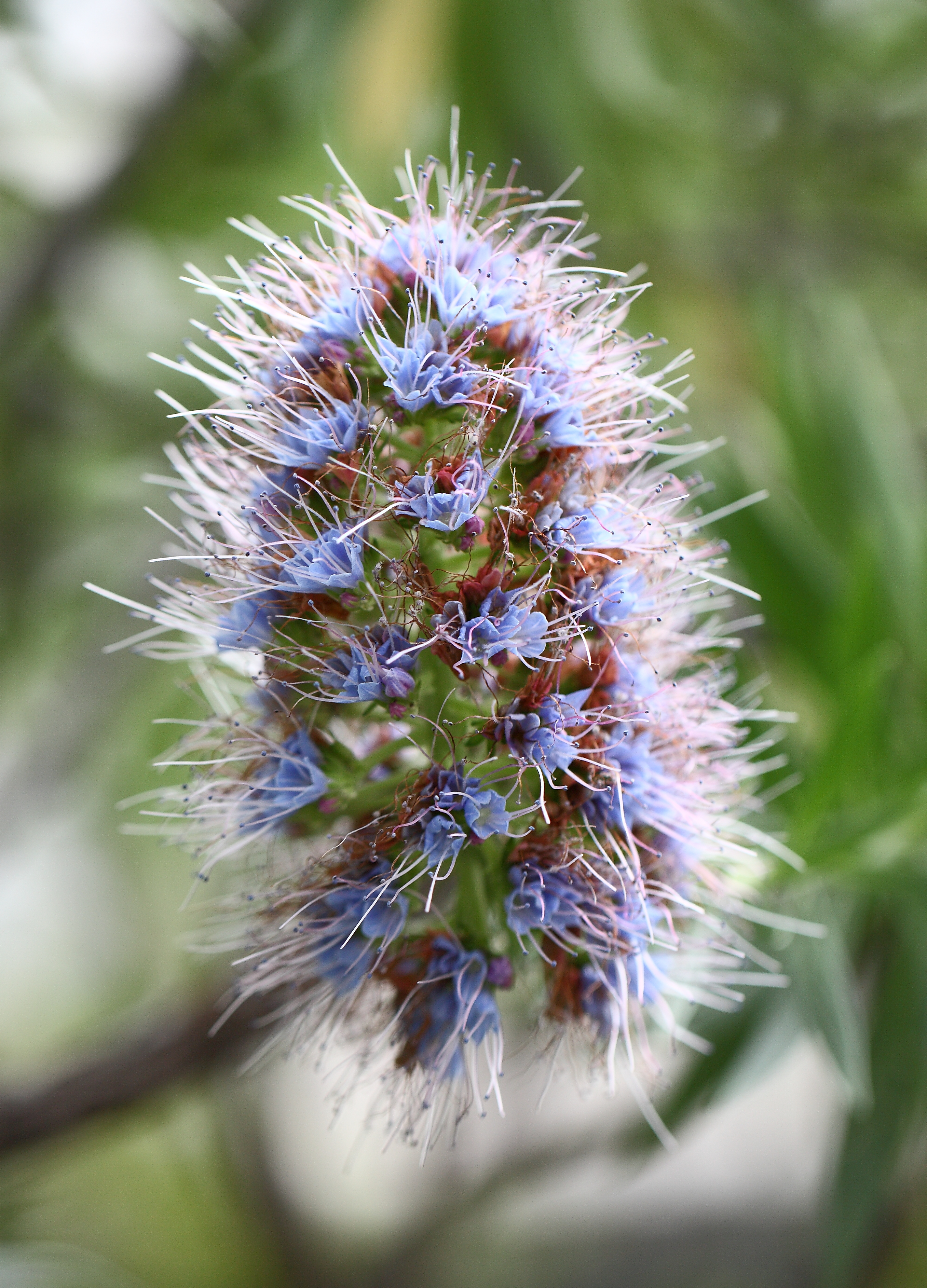 Echium nervosum, Botanic Garden, Munich-Nymphenburg, Germany.